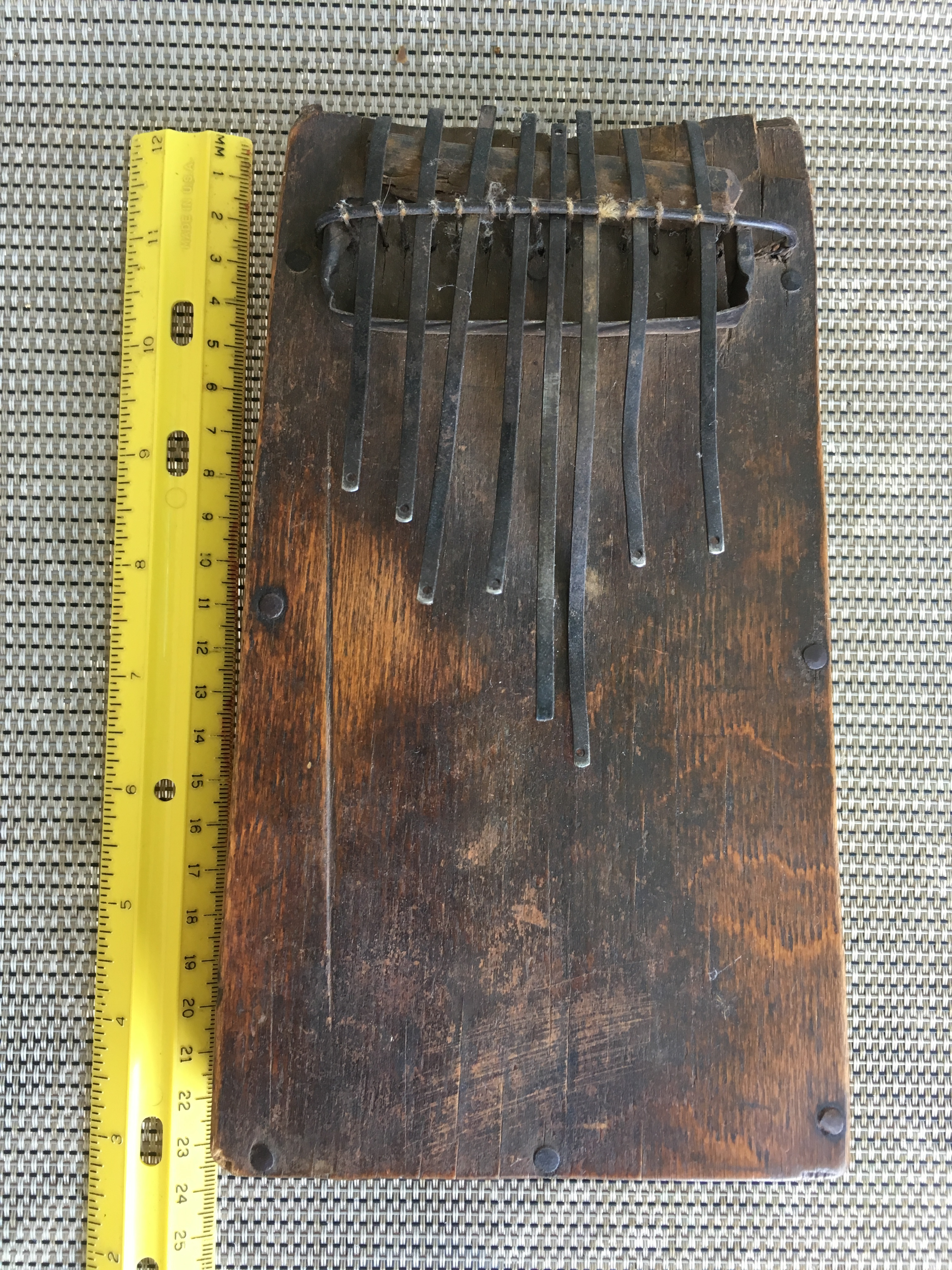 Toom from the Majang people. The wood was from a machete crate. It was made before 1992.